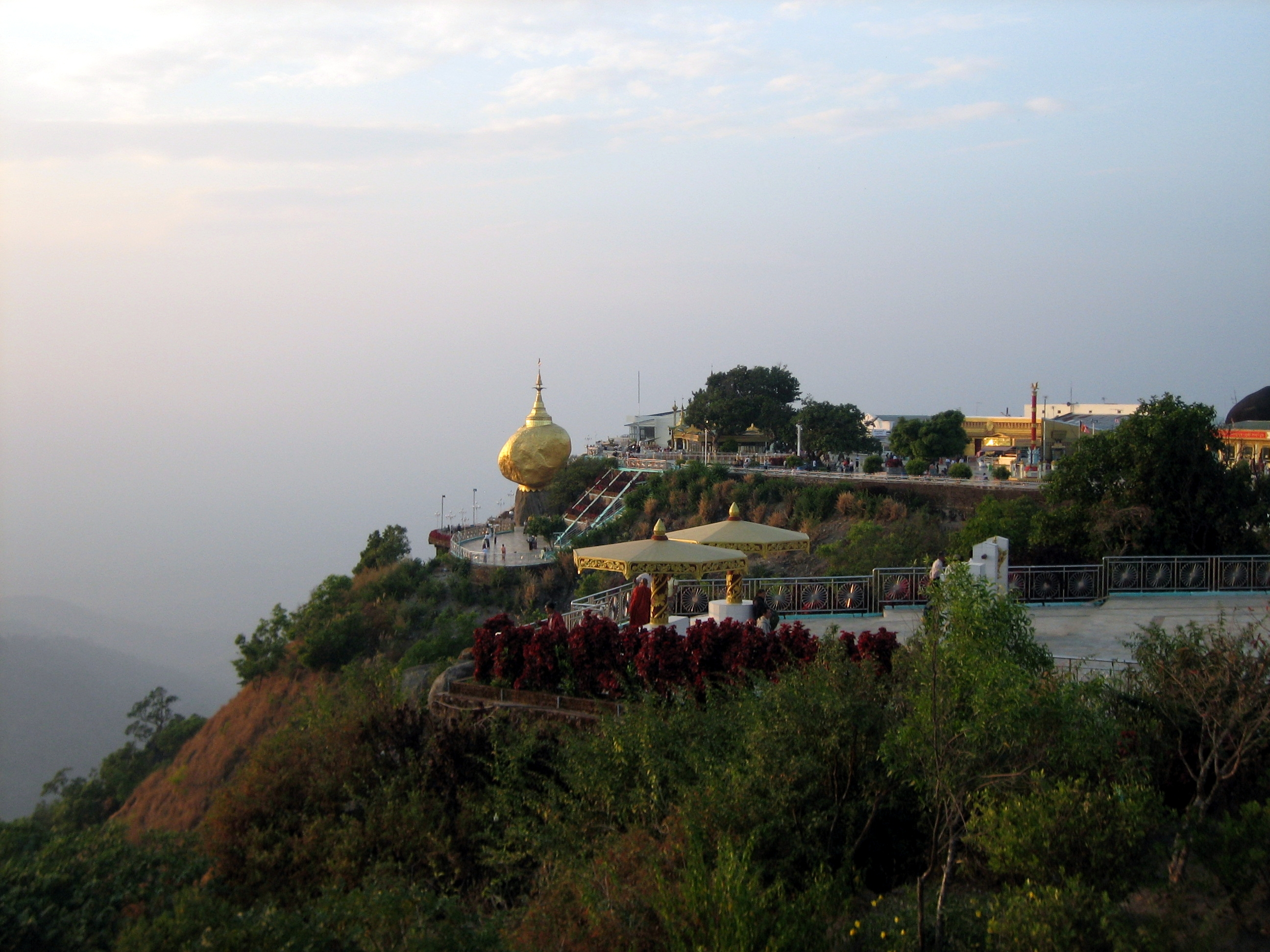 Kyaikhtiyo Pagoda at Sunset